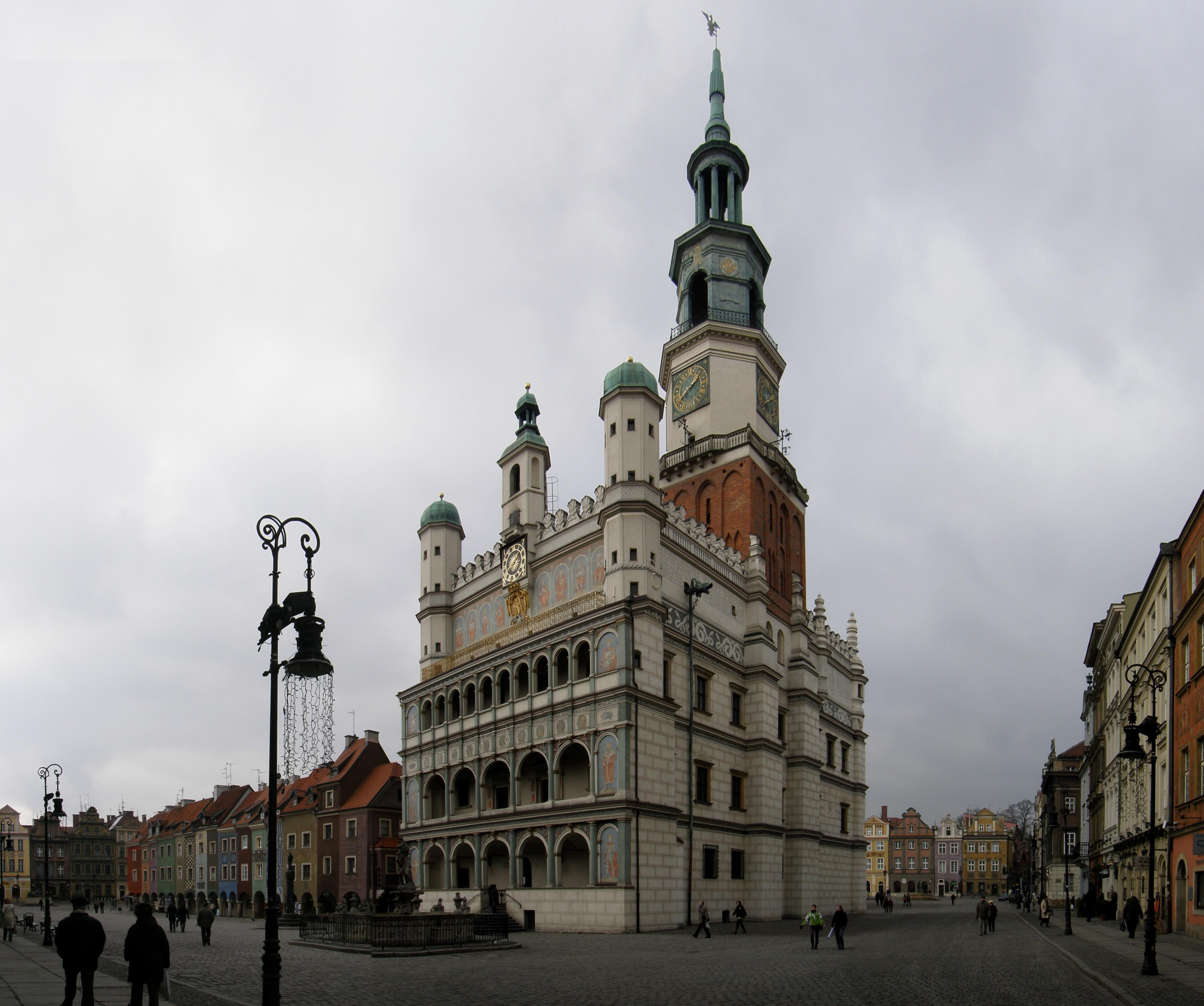 Old Market Square in Poznań, view from north-east corner. City Hall on the main plan.